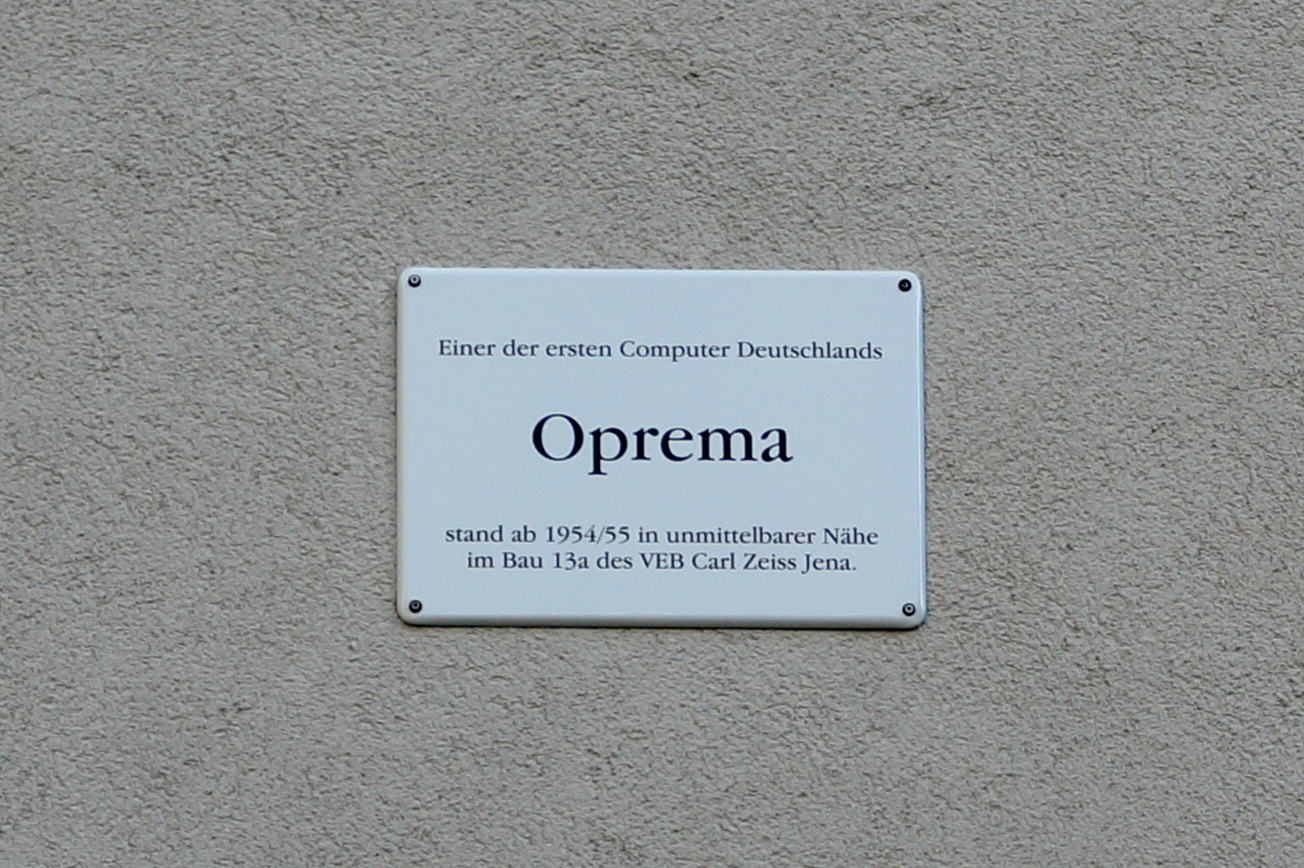 Plaque for the OPREMA-Computer at the building of the department of Mathematics and Computer Science at University of Jena (Ernst-Abbe-Platz 2).